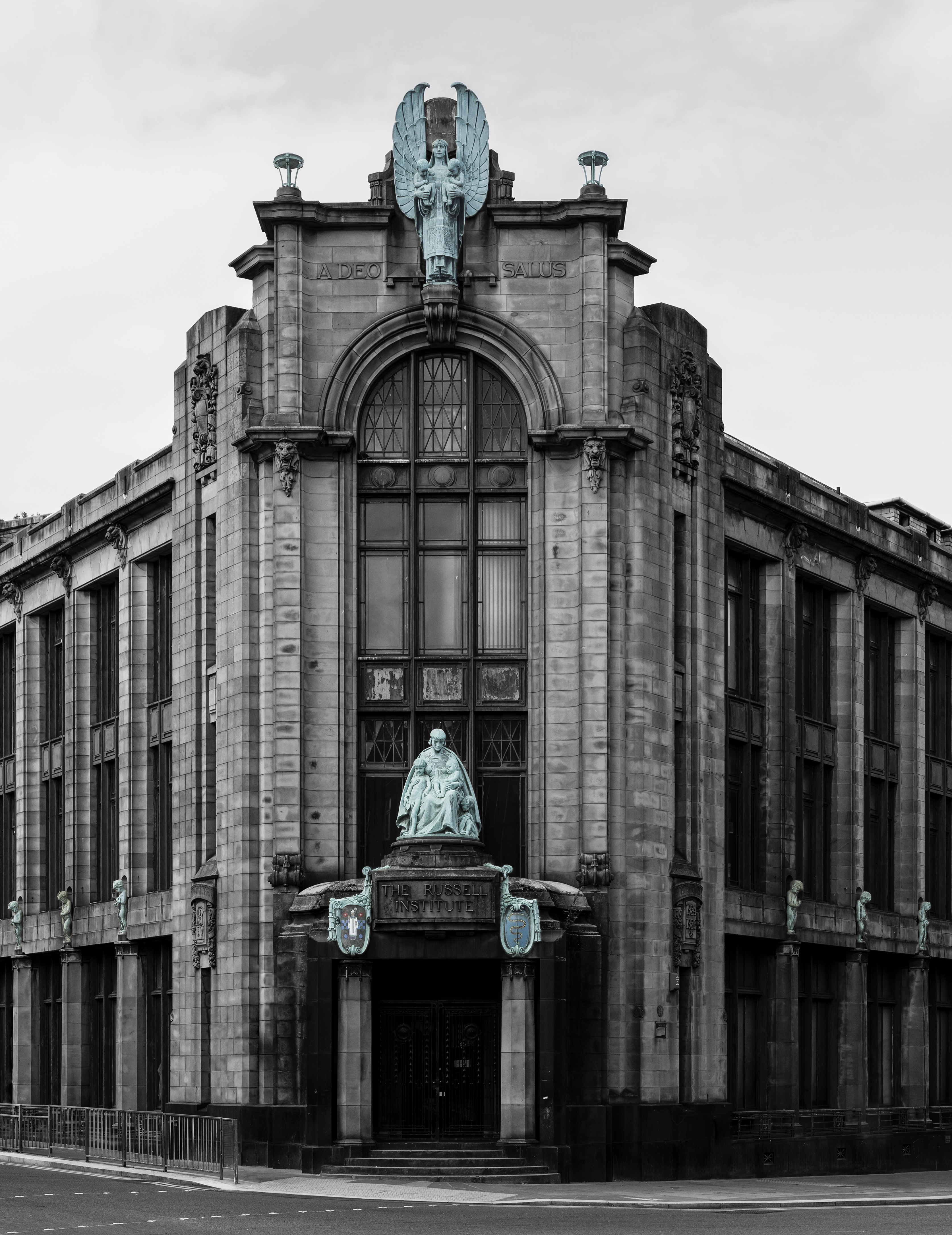 The Russell Institute in Paisley. Architect: James Steel Maitland. Sculptor: Archibald Dawson. Built in 1926-7 as a child welfare clinic, the text at the top, "A DEO SALUS", means "Health comes from God". The upper figure is a guardian angel carrying two children. Above the entrance, the left shield has the Paisley coat of arms and the right depicts the god of medicine, Aesculapius. The various figures along the sides are children with various ailments. The lower sculpture, Young Motherhood, is a mother with children. In this group, the models were Dawson's wife Isa along with his children Alistair and Hamish; the little girl is other relative of Dawson's. Photographer's notes: I took this photograph with a Sony A33 camera and Tamron 17-50mm lens at 44mm. It consists of four landscape photographs stitched together vertically with Hugin. I then converted to black and white using Lightroom's "B&W Look 2" preset. Next, I used Photoshop to blend this with a desaturated colour version for the sculptures and shields. Finally, I cloned out the street furniture and cropped.